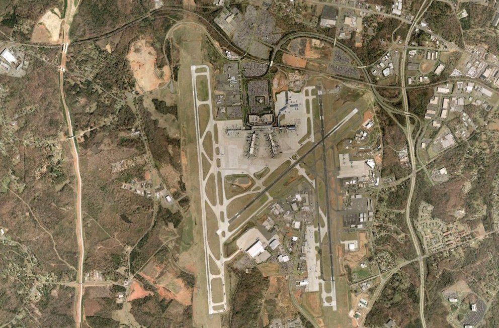 Satellite view of Charlotte/Douglas International Airport, NASA World Wind 1.3.5